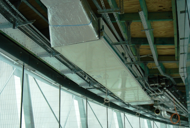 Top-left: cable duct, top-middle: Airco Group HVAC. Note the incoming insulated channel for cold air and the other air ducts.